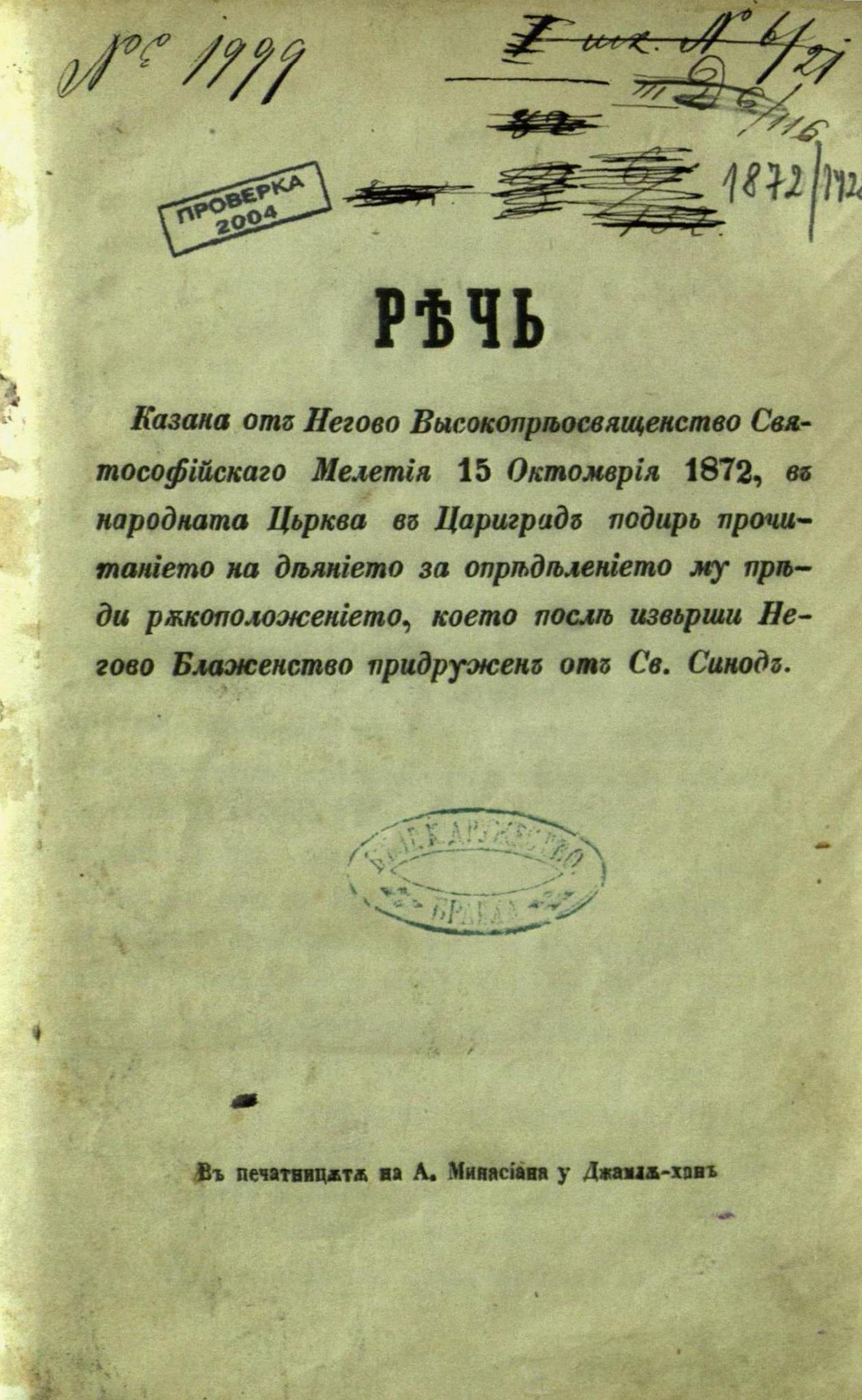 Speech by Meletius of Sofia